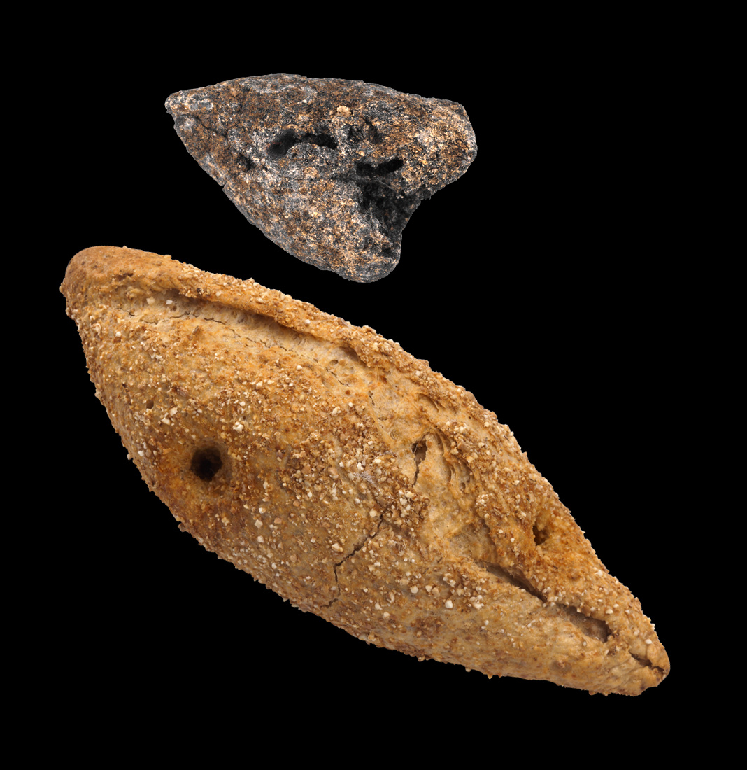 Europe's oldest surviving fine bread top: Original bottom: reconstruction